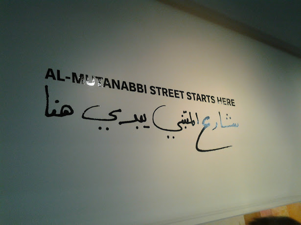 Almutanabbi street starts here